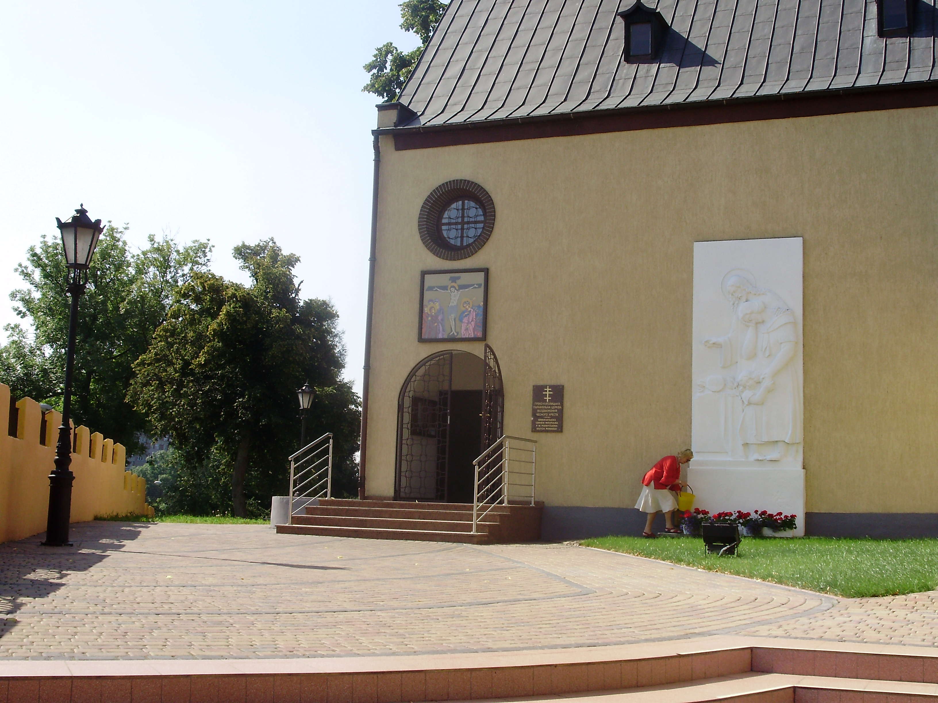 Greek-catolic church in Wałcz.